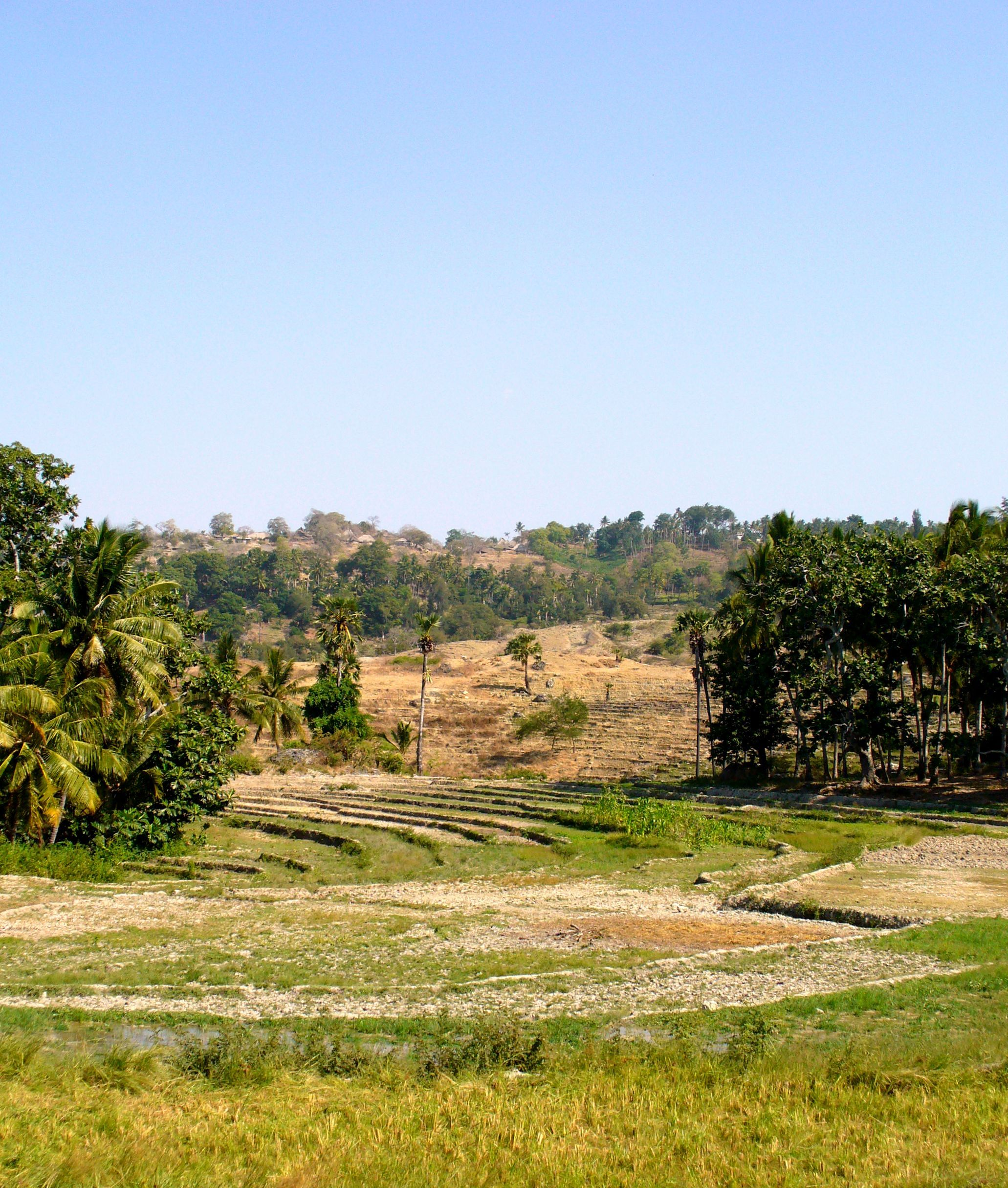 Baucau, East Timor